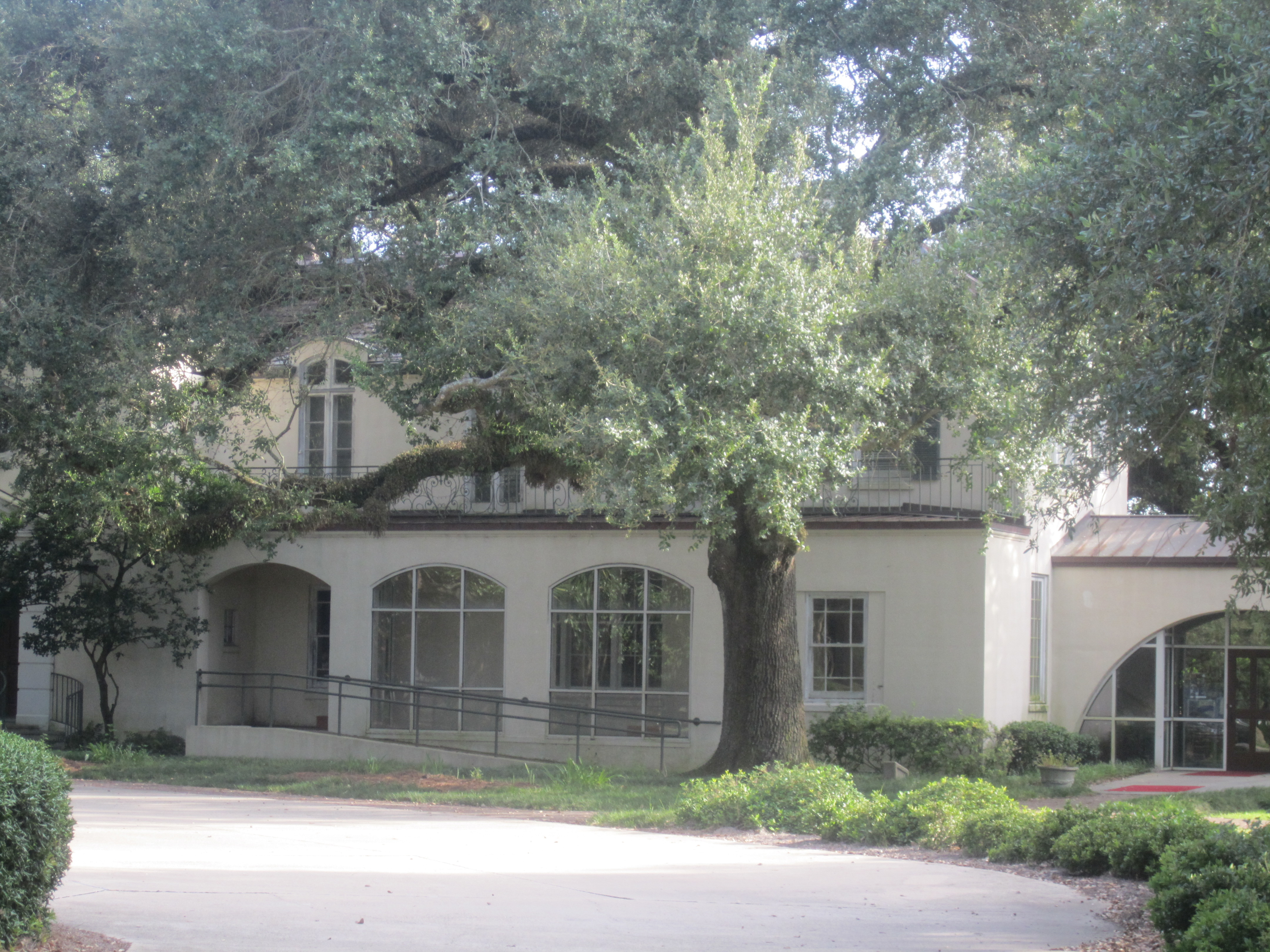 I took photo of Alumni Center at ULL in Lafayette, LA, with Canon camera.